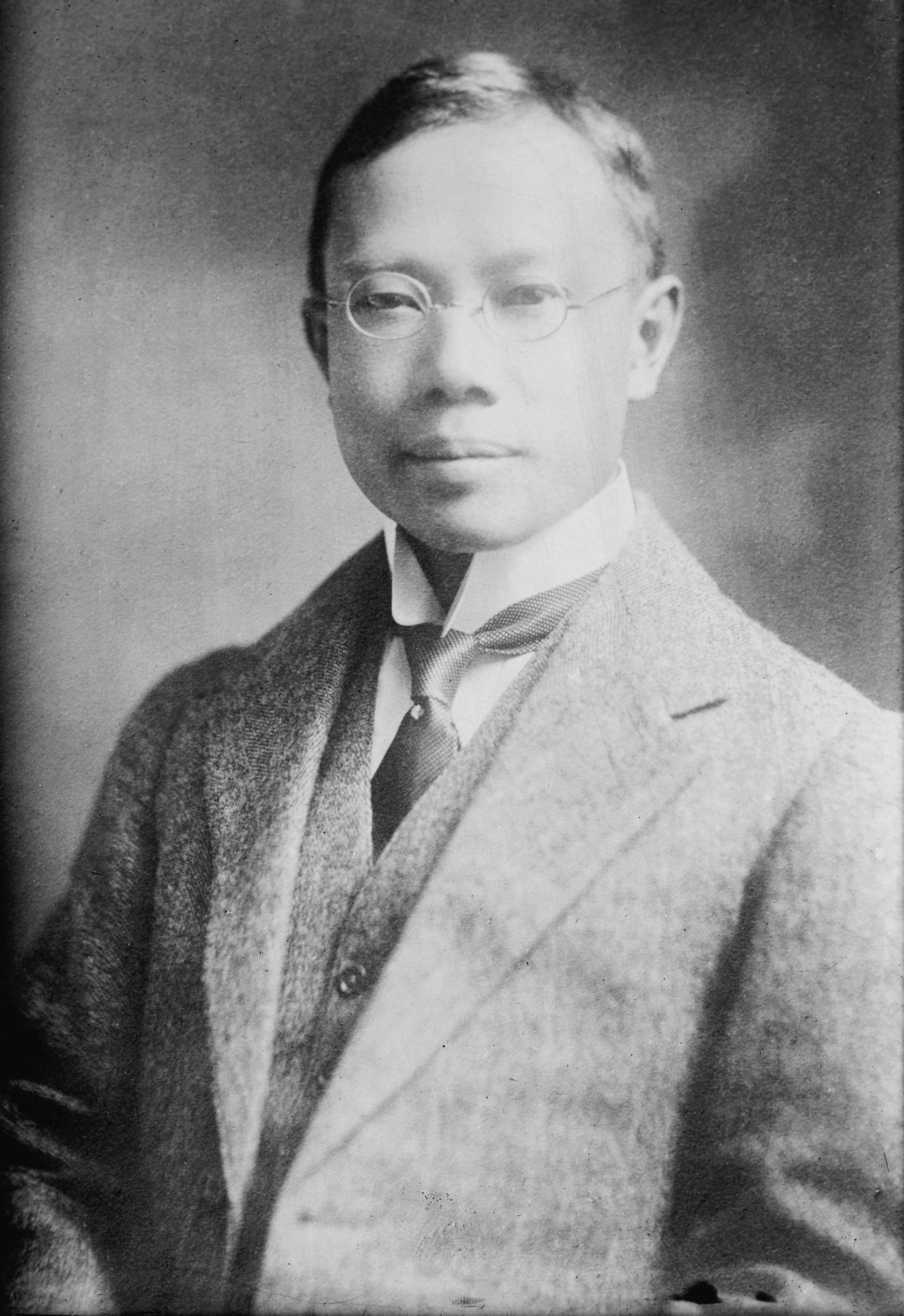 Bain News Service,, publisher. Wu Lien-teh [between ca. 1910 and ca. 1915] 1 negative : glass ; 5 x 7 in. or smaller. Notes: Title from unverified data provided by the Bain News Service on the negatives or caption cards. Forms part of: George Grantham Bain Collection (Library of Congress). Format: Glass negatives. Repository: Library of Congress, Prints and Photographs Division, Washington, D.C. 20540 USA, General information about the Bain Collection is available at Persistent URL: Call Number: LC-B2- 2823-6